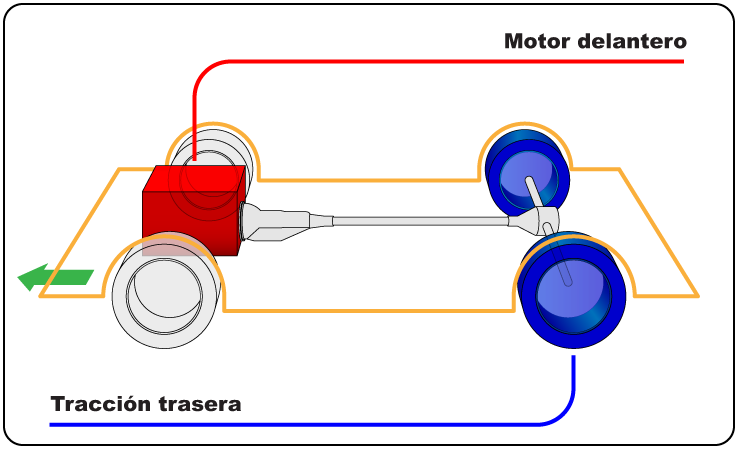 Vehicle engine and drive wheel placement diagrams